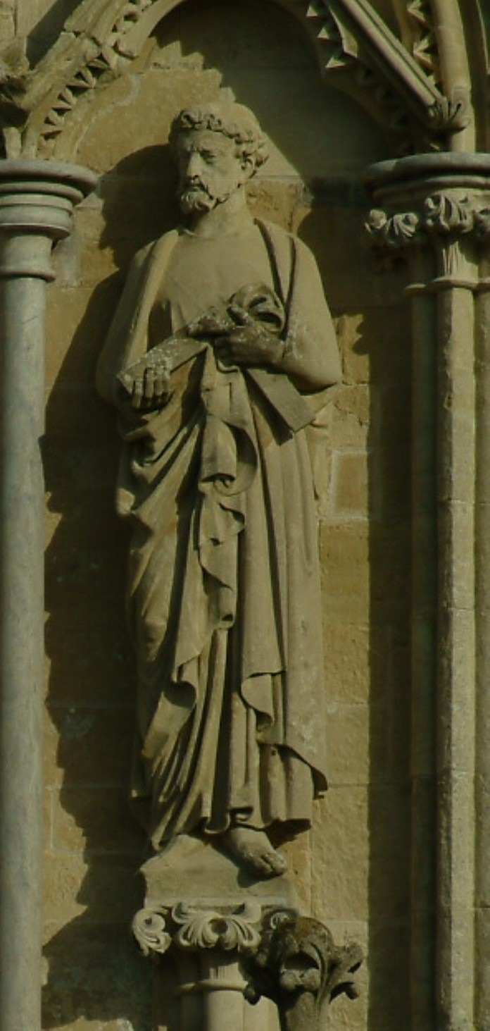 A statue of St. Thomas on the West Front of Salisbury Cathedral, UK.